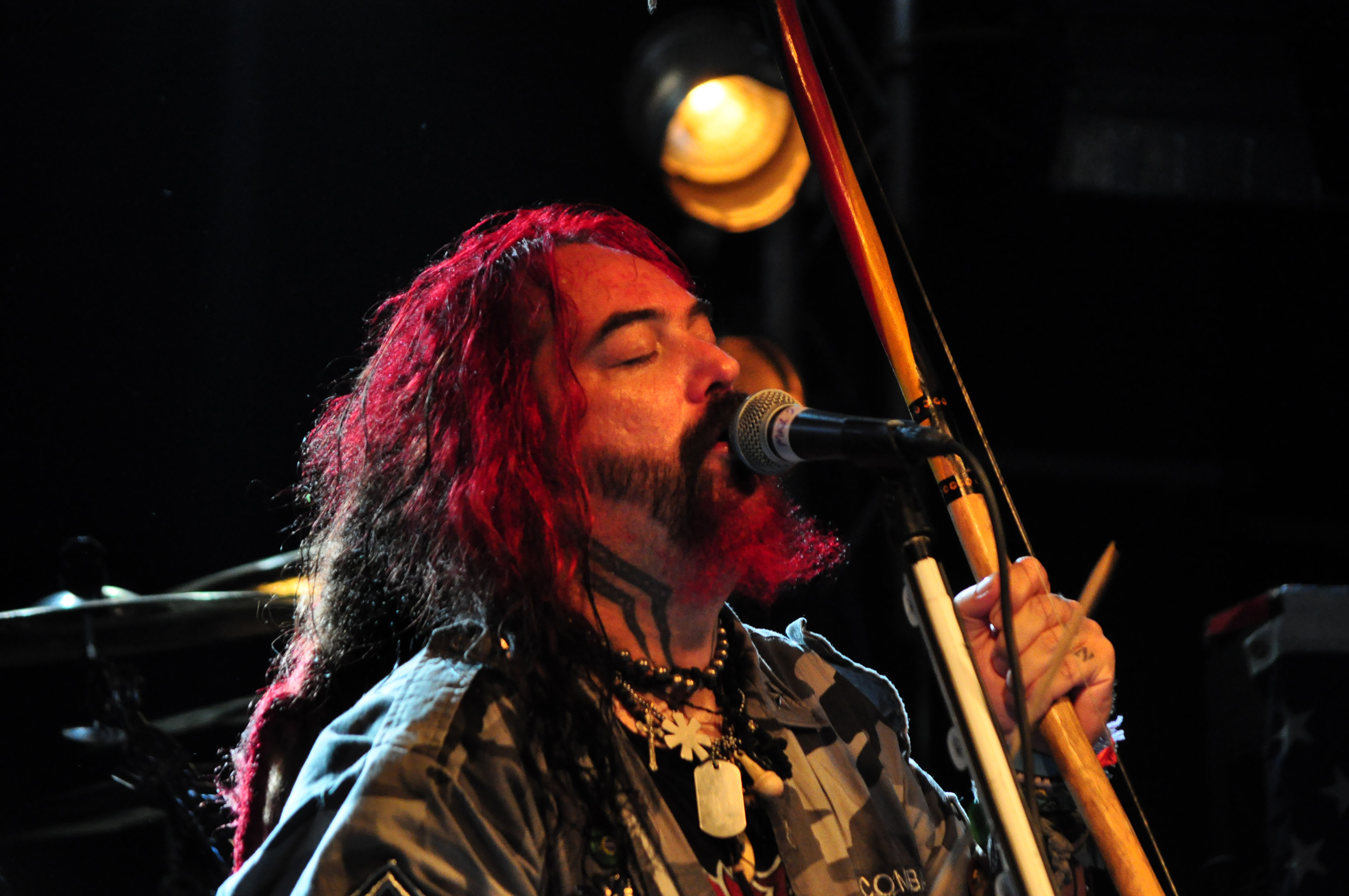 Soulfly in Rostock 2012